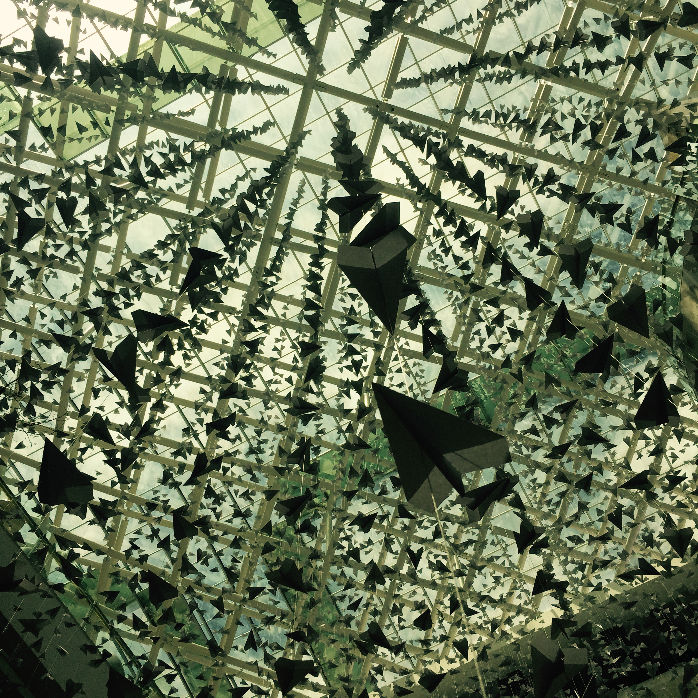 Ceiling of Centro Shopping Mall, Chapinero, Bogotá, Colombia in June 2015